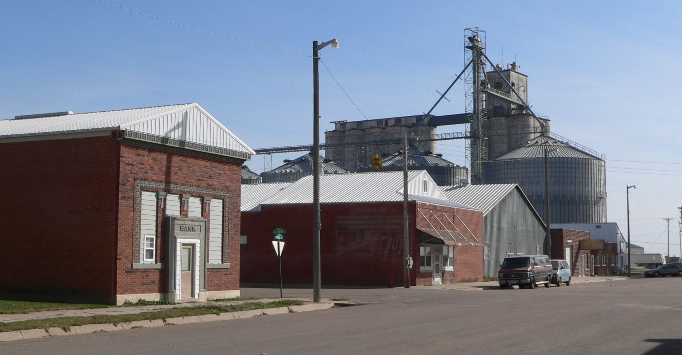 Downtown Holstein, Nebraska: east side of Main Avenue, looking southeast. The street intersection in the center of the photo is that of Main Avenue, running north-south, and Fillmore Street, running east-west.